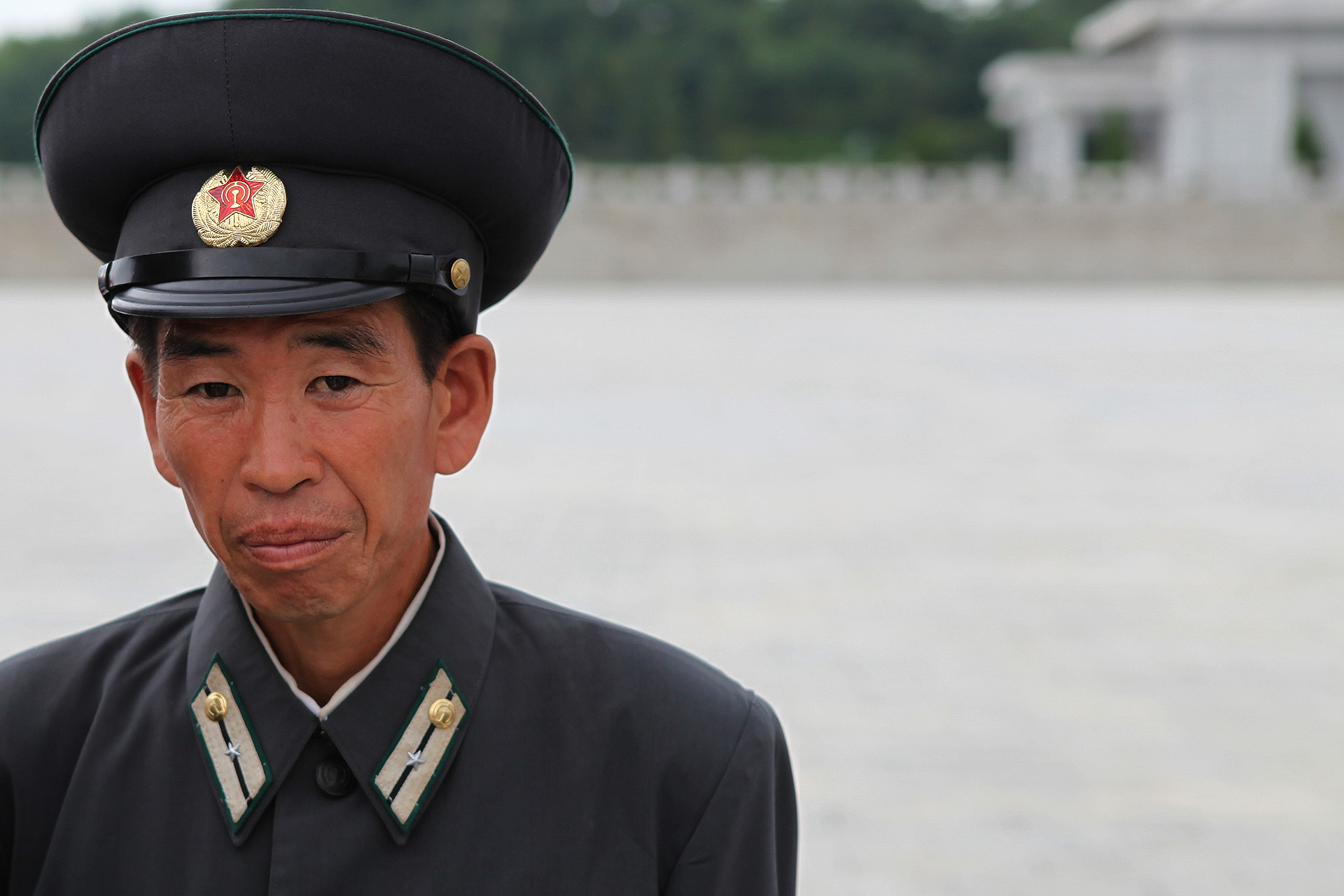 In front of Kumsusan memorial palace. The uniforms are made from "Vinalon", also known as "Juche fibre" in the DPRK, has become the national fibre of North Korea and is used for the majority of textiles, outstripping fibre such as cotton or Nylon, which are produced only in small amounts in North Korea. Other than clothing, Vinalon is also used for shoes, ropes and quilt wadding.